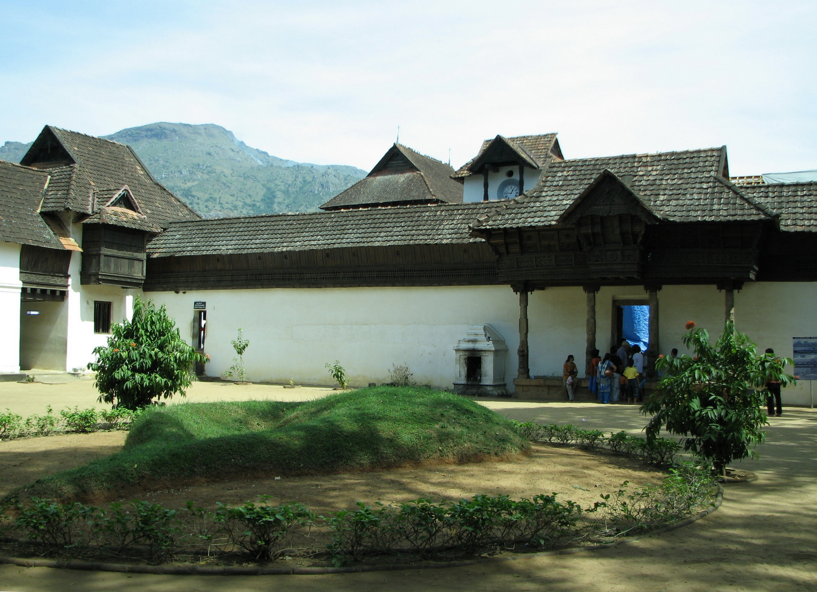 self-made photograph ; Author's Name : Infocaster